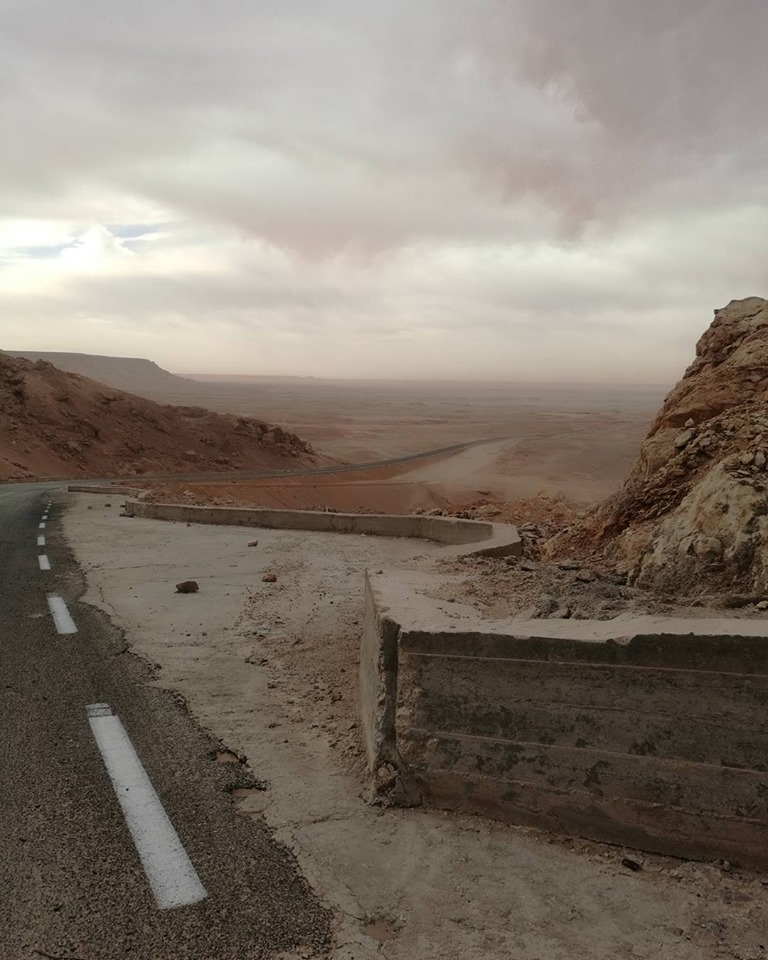 Algerian desert, Hassi Messaoud